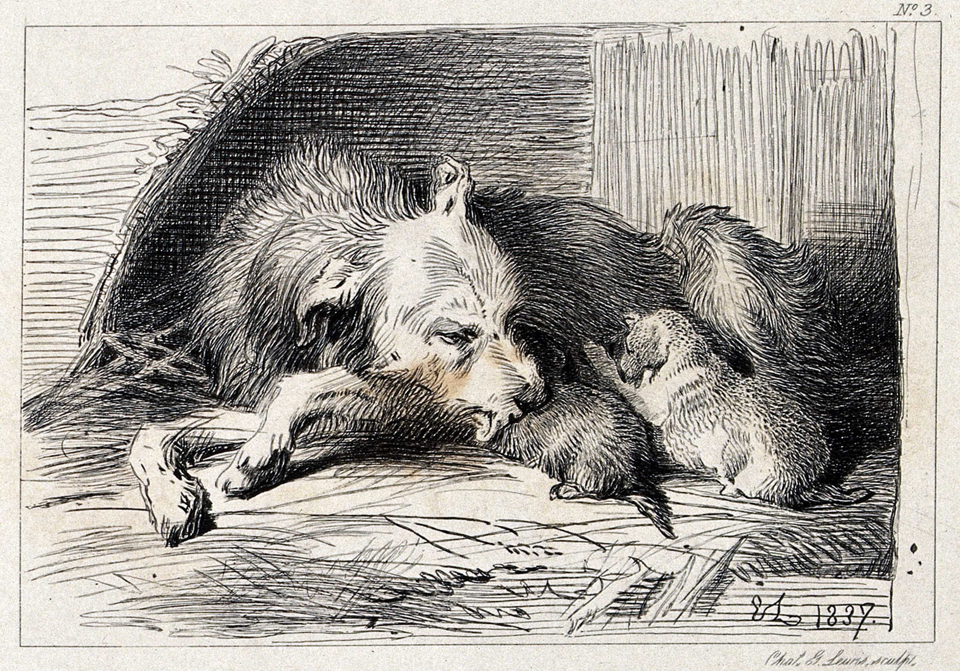 A bitch is licking its suckling puppies. Etching by C. G. Lewis after E. H. Landseer. Iconographic Collections Keywords: Edwin Henry Landseer; Charles George Lewis